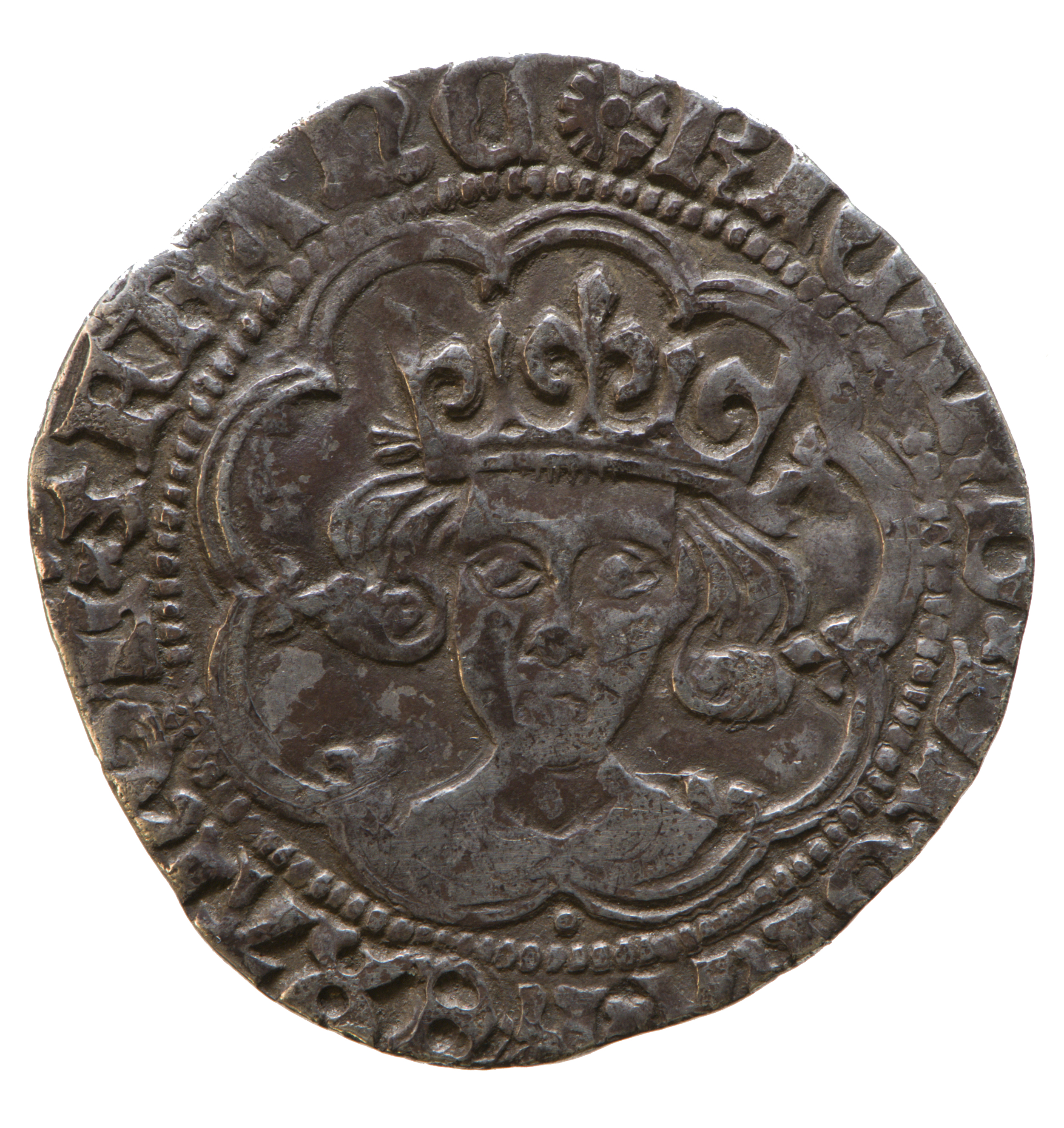 Obverse (front) of a silver groat of Richard III of England Crowned head facing forward